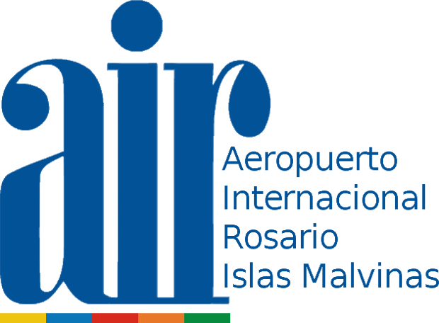 Logo that identifies the airport "Aeropuerto Internacional Rosario 'Islas Malvinas' (AIR)".